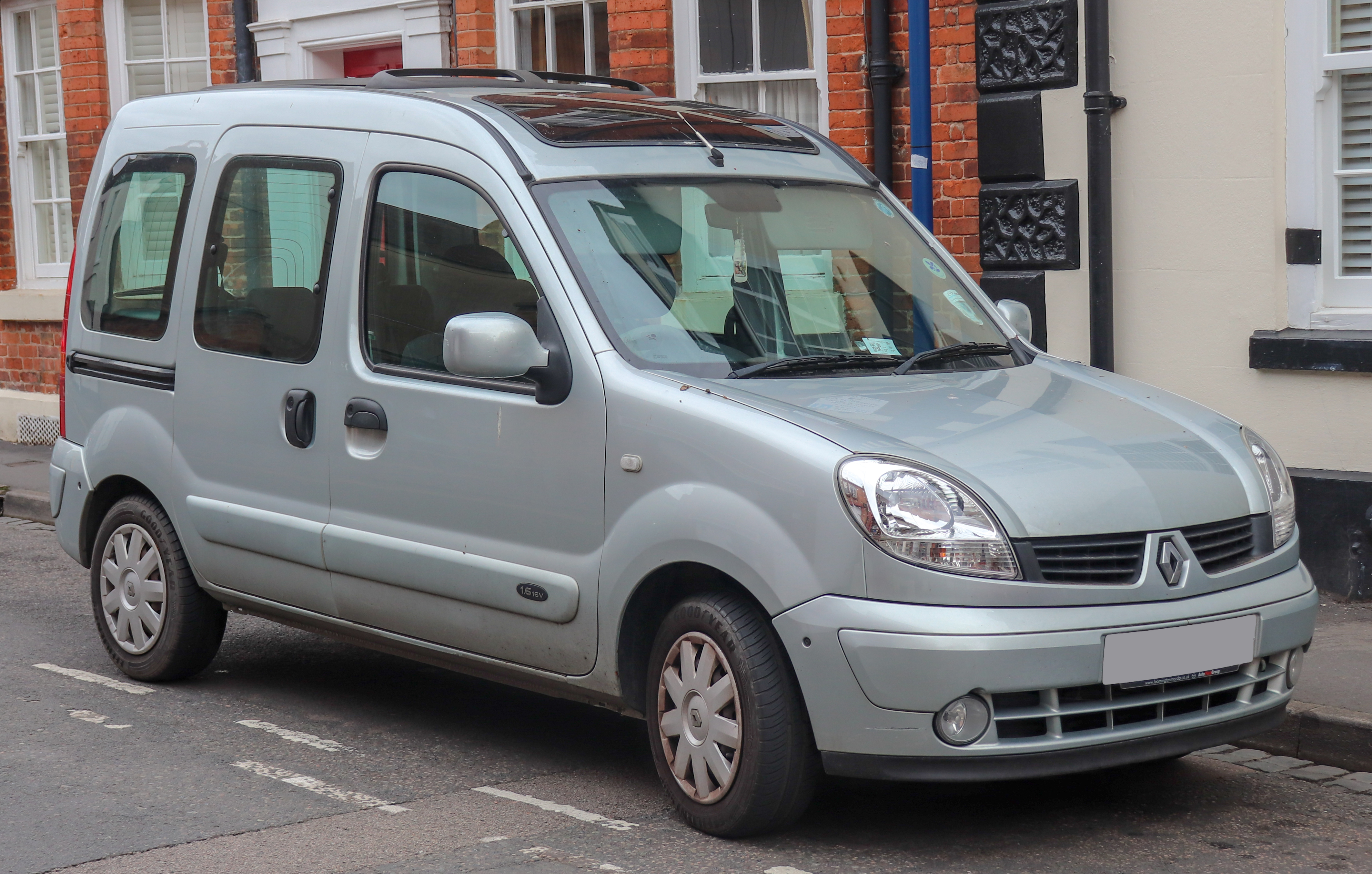 2008 Renault Kangoo Expression Automatic 1.6 Front Taken in Warwick